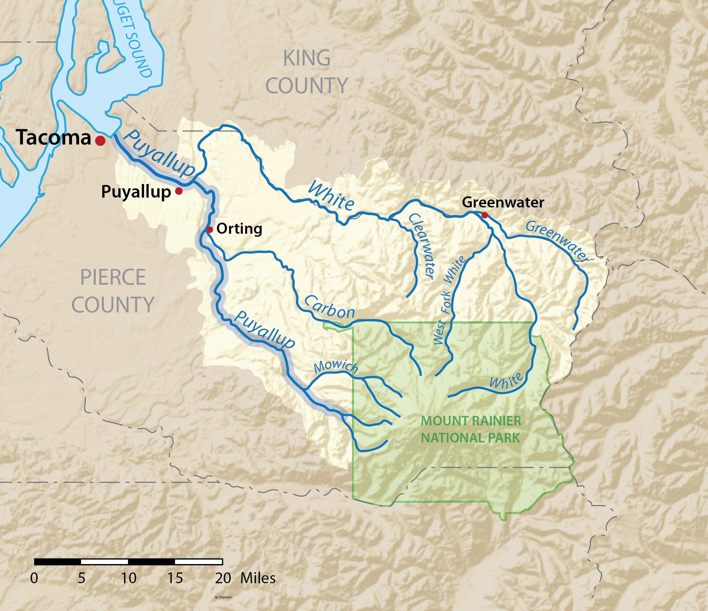 Map of the Puyallup River watershed in Washington, USA with the Puyallup River highlighted. Made using USGS National Map data.